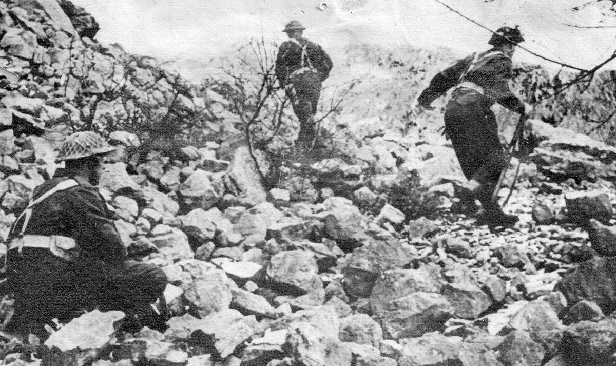 Polish soldiers during the Battle of Monte Cassino